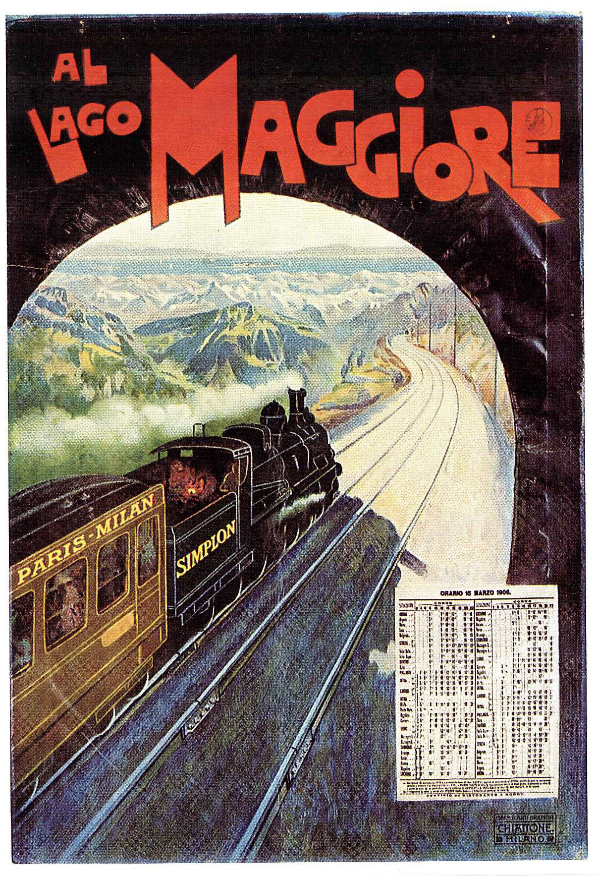 Old poster for the train between Paris and Milan, just after the opening of the Simplon tunnel in 1908, which made the voyage by train to Italy shorter. The poster shows the Lago Maggiore, where many tourists from the north would be heading.